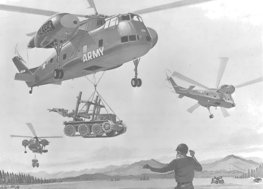 Airborne assault (artist's concept)